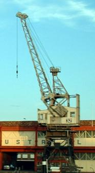 Stothert & Pitt electric dockside crane with Toplis level luffing gear. Bristol Industrial Museum